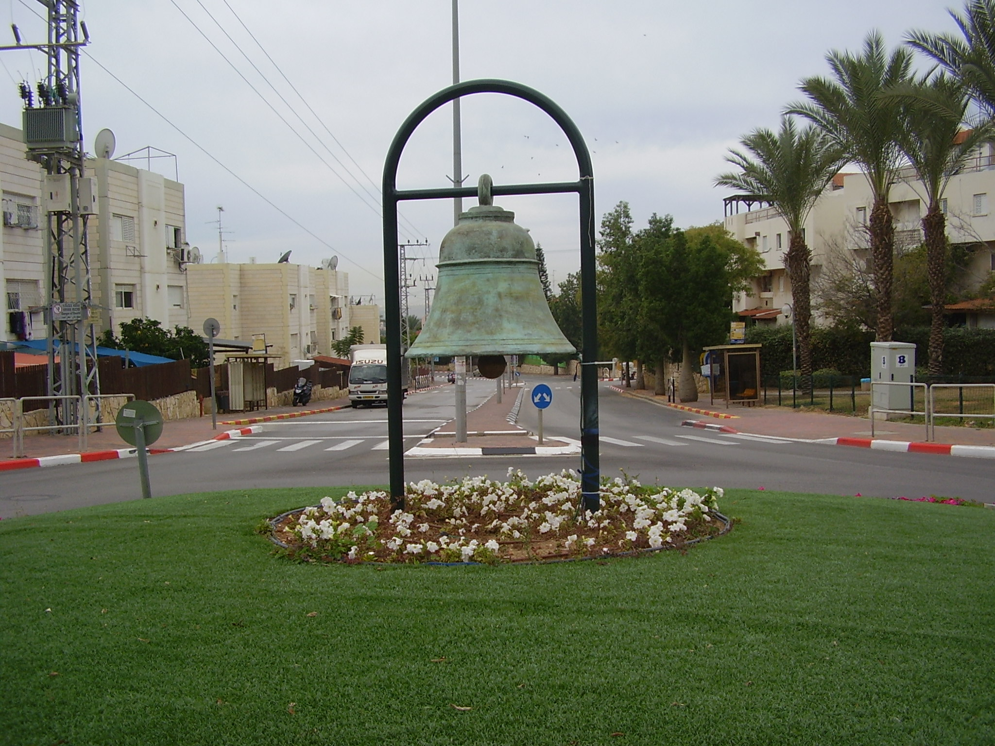 Rosh Ha'ayin music town - Bell